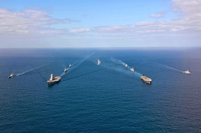 Indian navy Carrier Battle Groups